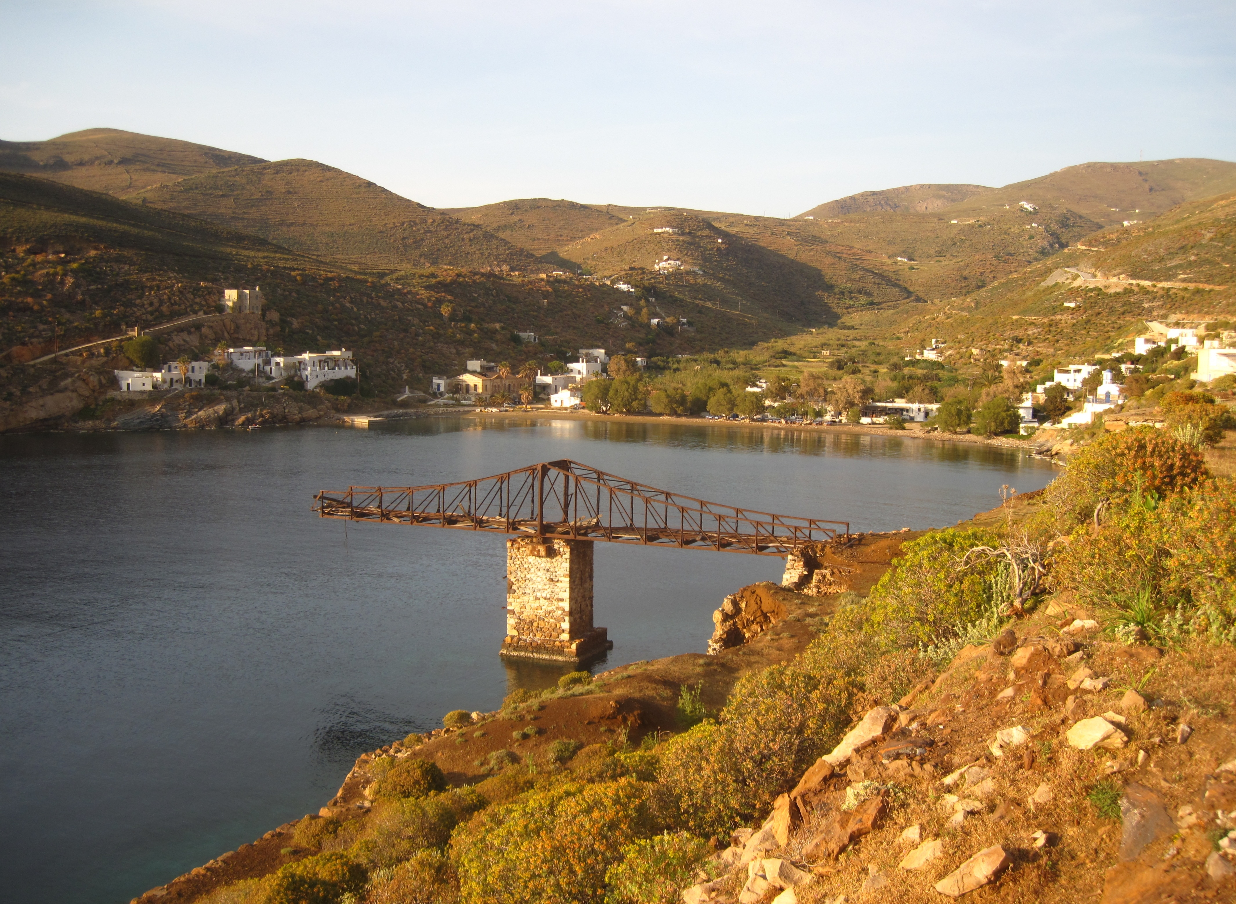 Serifos - Mega Livadi - Skala Metalleion